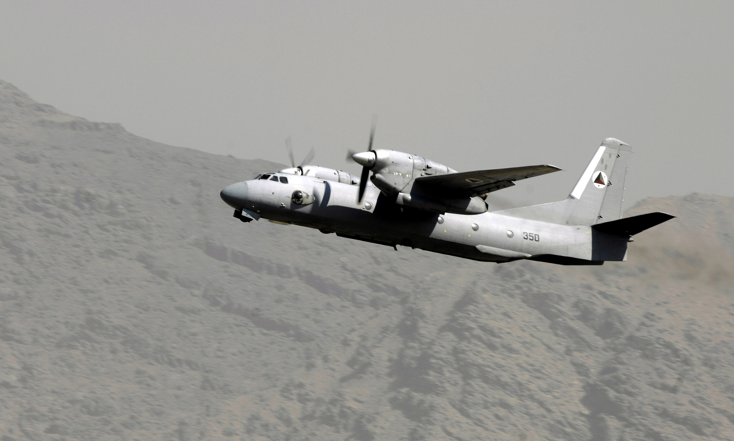 Joint team helps build Afghan air corps - An Afghan national army air corps AN-32 cargo plane takes off Oct. 18 at Kabul International Airport, Afghanistan. The plane's mission is to fly winter supplies to ANA troops in Kandahar. The ANA air corps has been able to fly more cargo to support their own troops due to the recent introduction and training of aircraft loadmasters. (U.S. Air Force photo/Staff Sgt. Brian Ferguson)